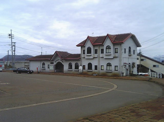 Sekiyama Station in Myōkō, Niigata Prefecture, Japan